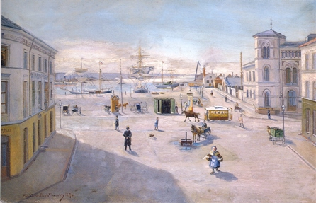 The “Vestbanen” train station in Oslo, Norway. Painting from 1890.